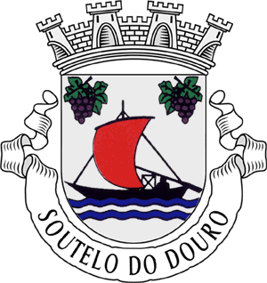 o brasão